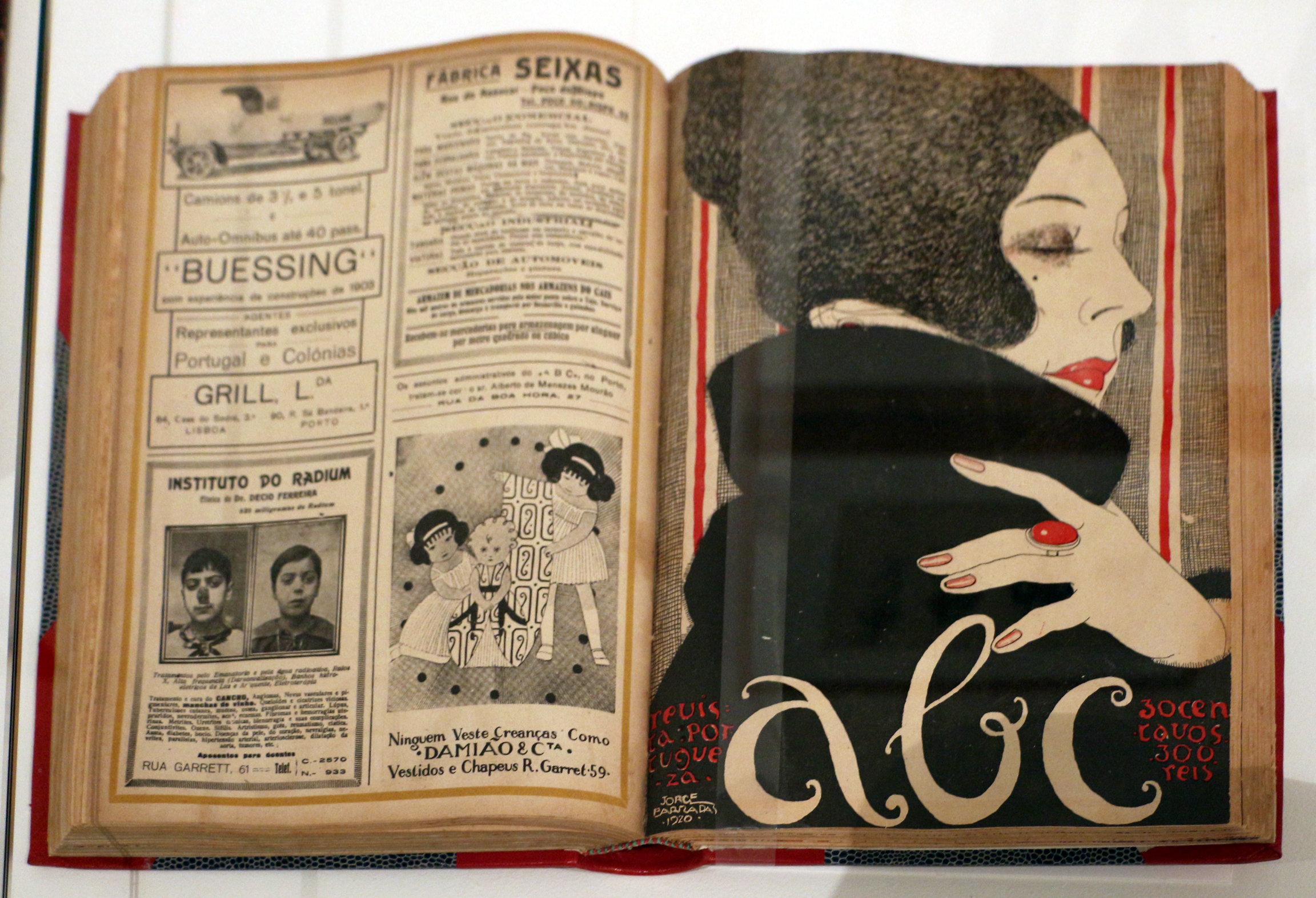 Calouste Gulbenkian Museum